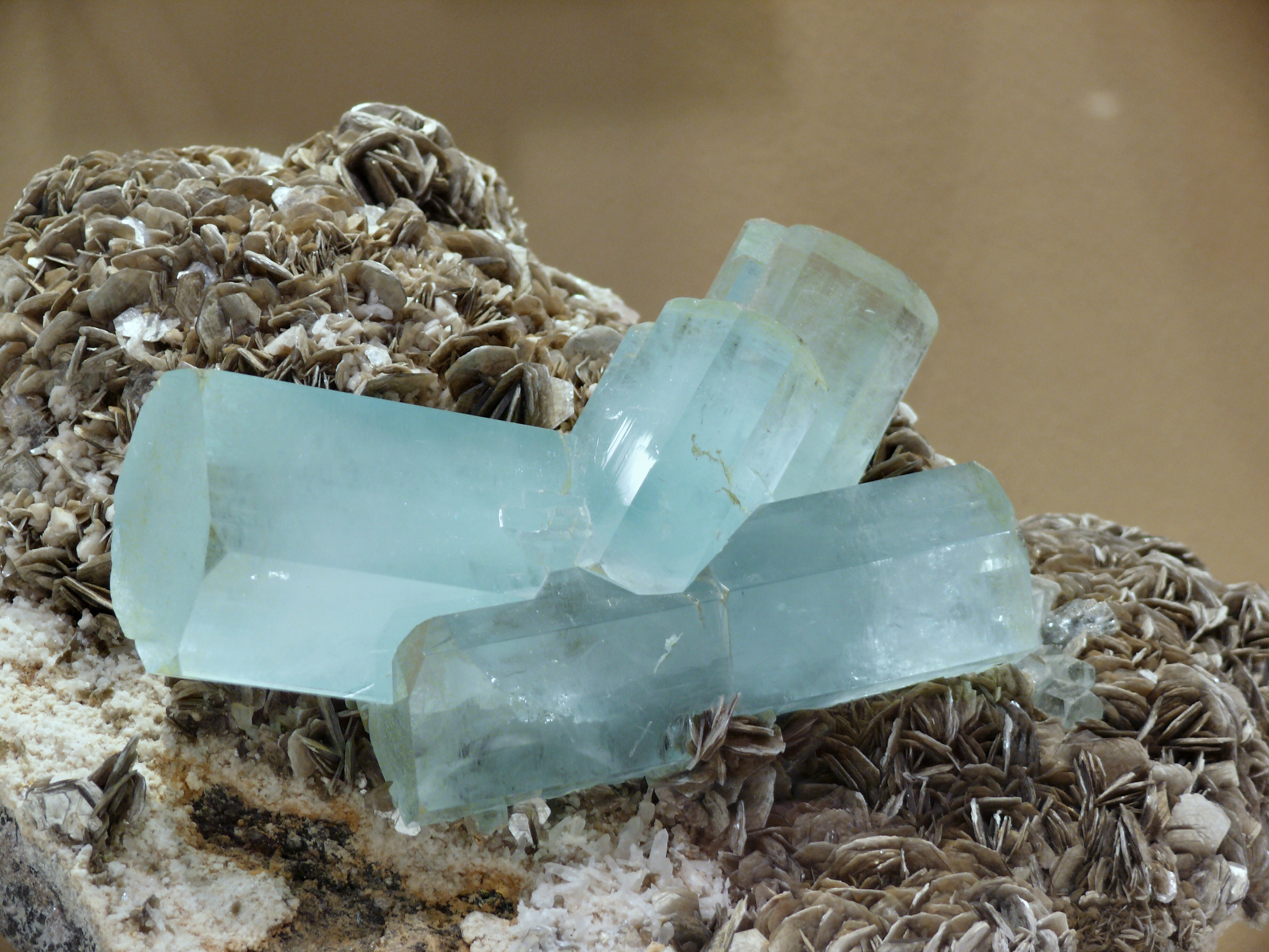 Aquamarine on Muscovite, Nagar Hunza Valley, Pakistan